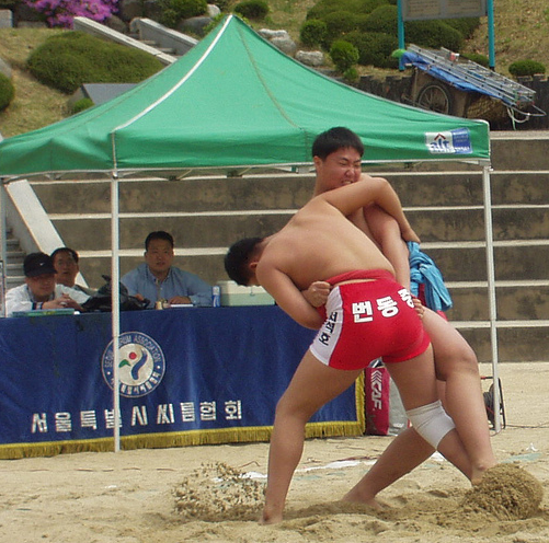 Ssireum-Korean wrestling